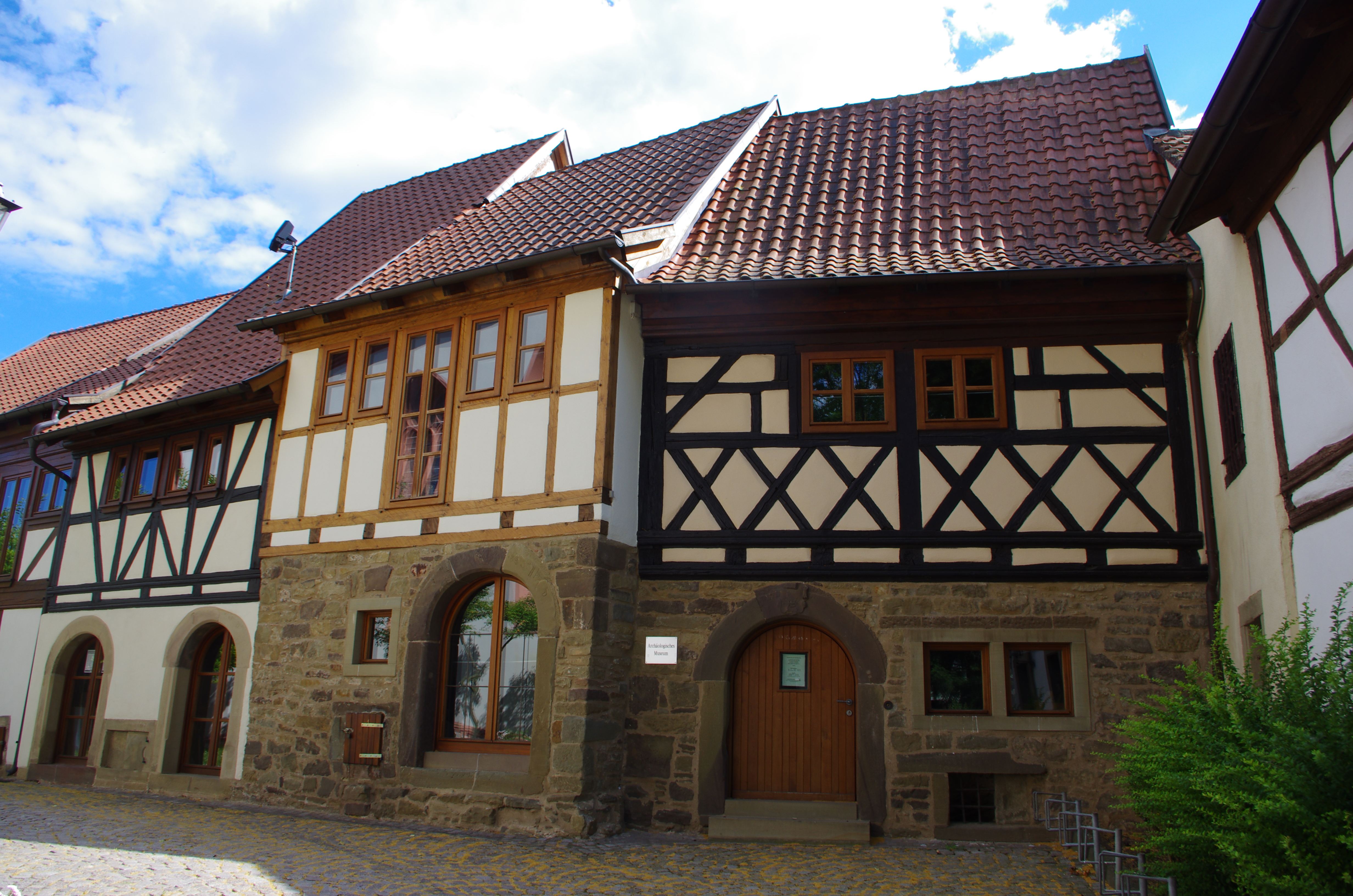 Google Maps - Google Earth